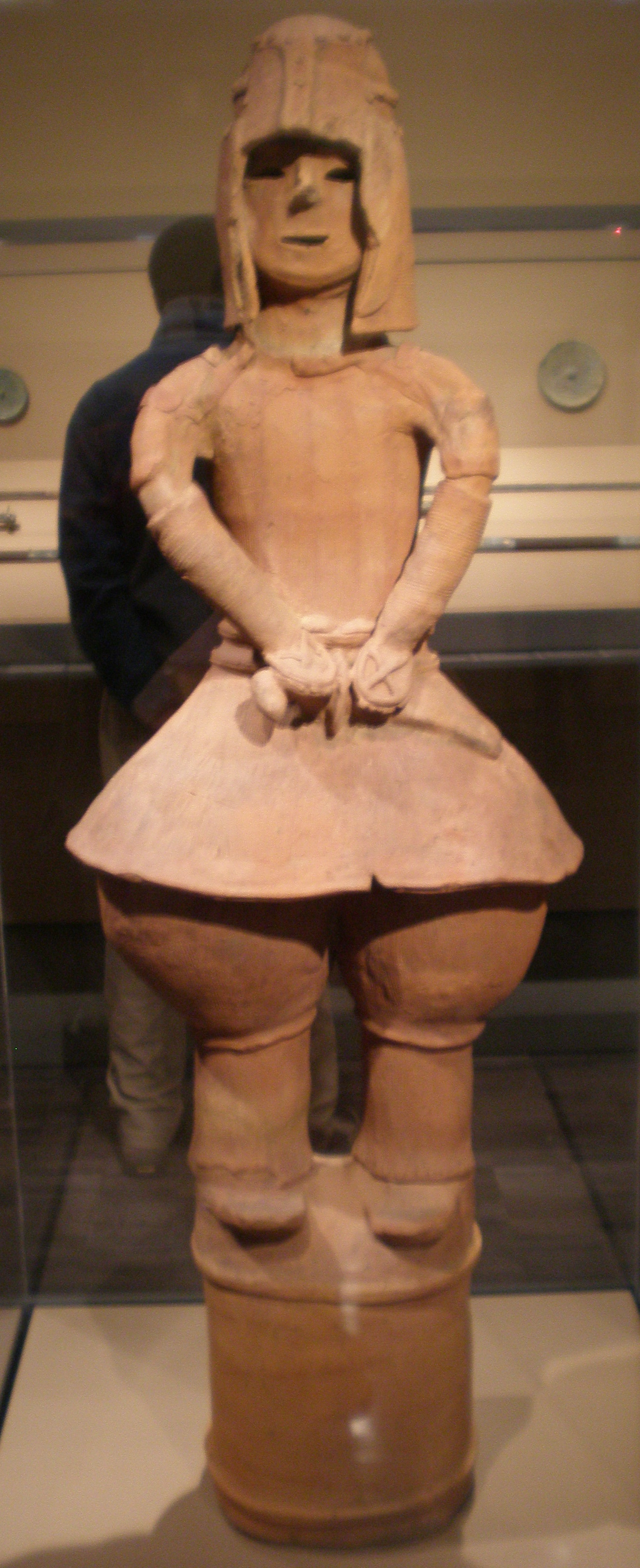 Haniwa in the form of a warrior excavated from Fujioka, Gunma Prefecture, Kofun Period (300-552). On display at the Asian Art Museum in San Francisco, California. B60S204